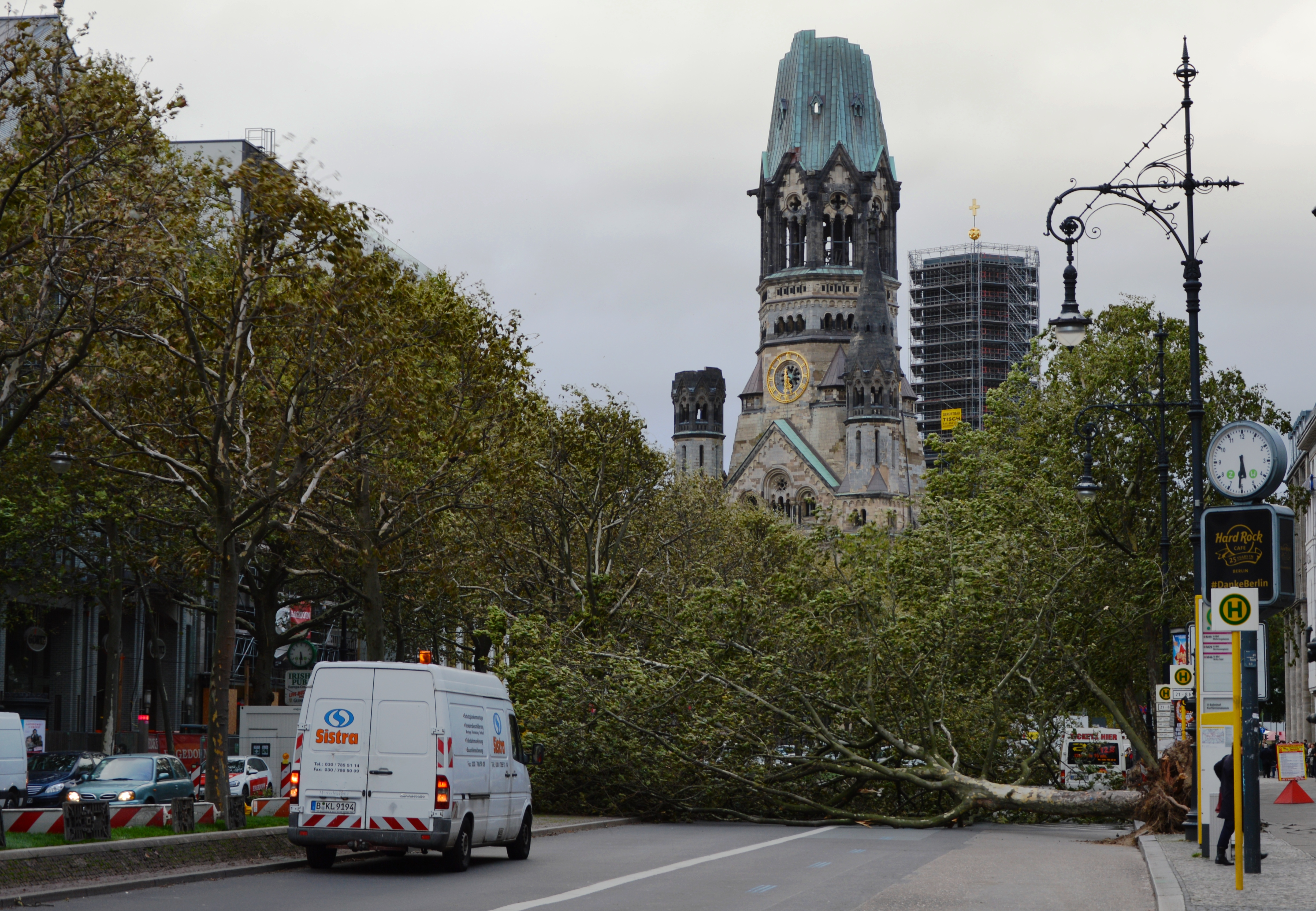 Storm Xavier 2017 in Berlin: Fallen trees near Kaiser Wilhelm Memorial Church. ... externe Dateiverwendung: used on